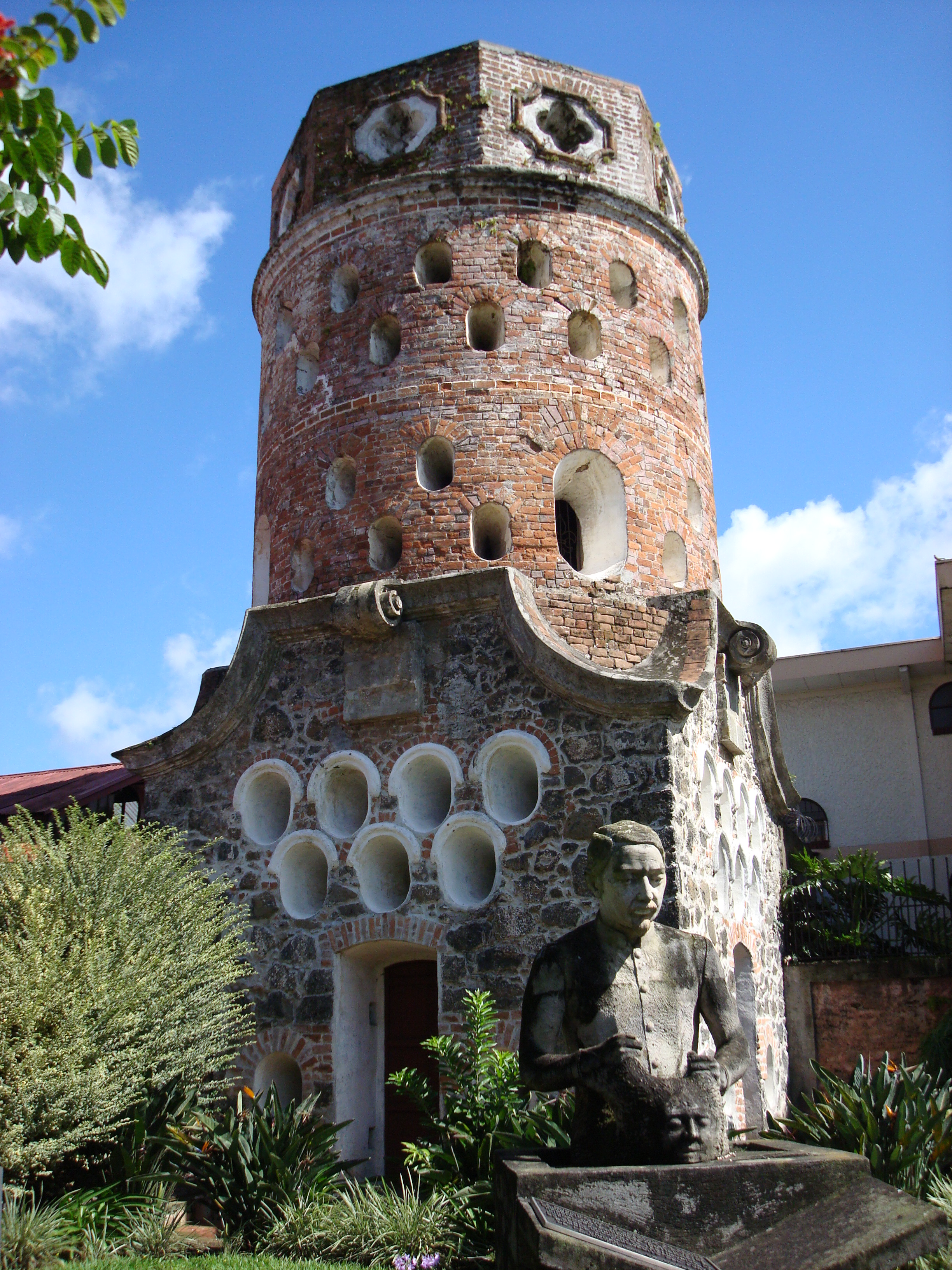 Fortin